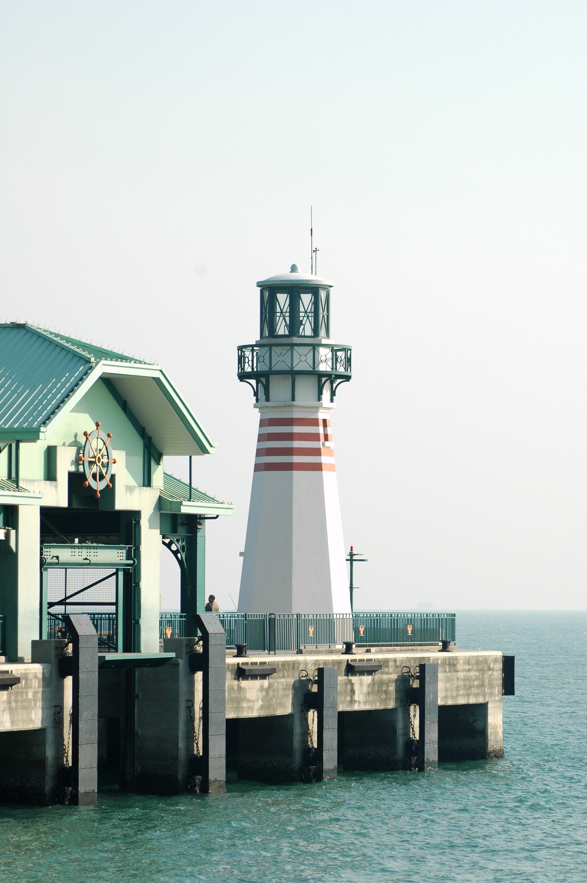 Lighthouse in Disney Resort Pier, Lantau Island, Hong Kong.